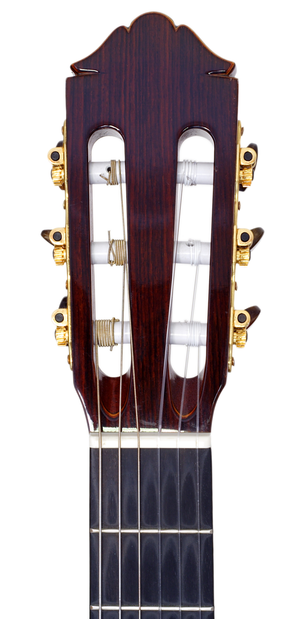 Guitar headstock front view The photograph shows the headstock of a classical guitar. It is a front view. Camera data Camera: Canon EOS 350D Lens: EF 50mm 1:1.8 II